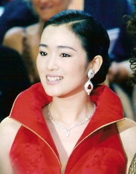 Gong Li and Andie MacDowell at Cannes Film Festival